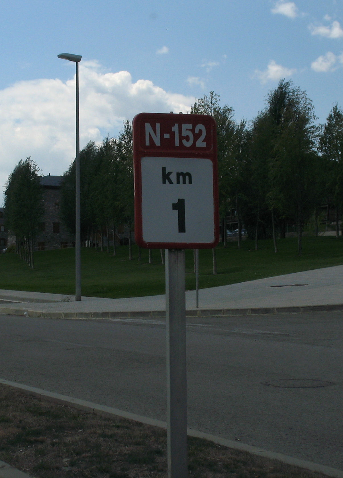 A road sign on spanish N-152 highway.